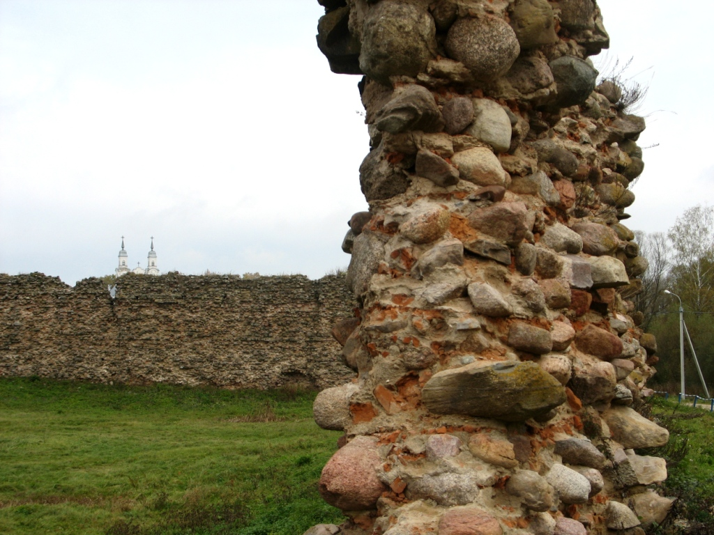 Castle of Kreva, Belarus